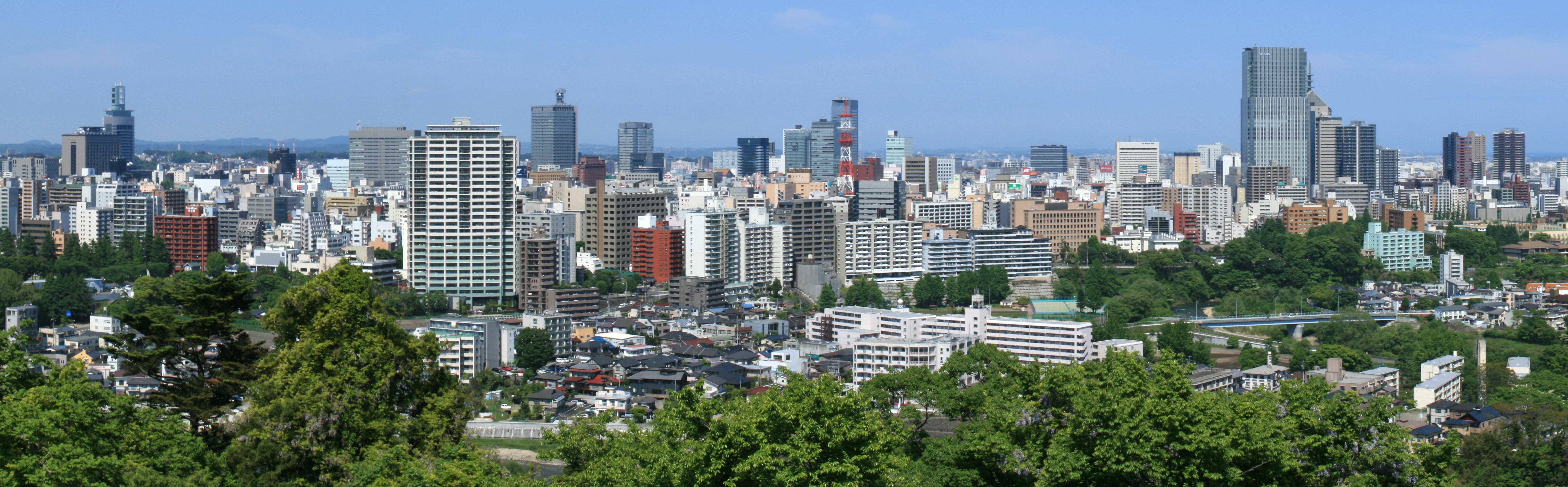 Panoramic view of Sendai City viewed from the site of Sendai Castle (Aoba Castle) keep tower base. Stitched 13 photographs together by Hugin, and retouched by GIMP2.